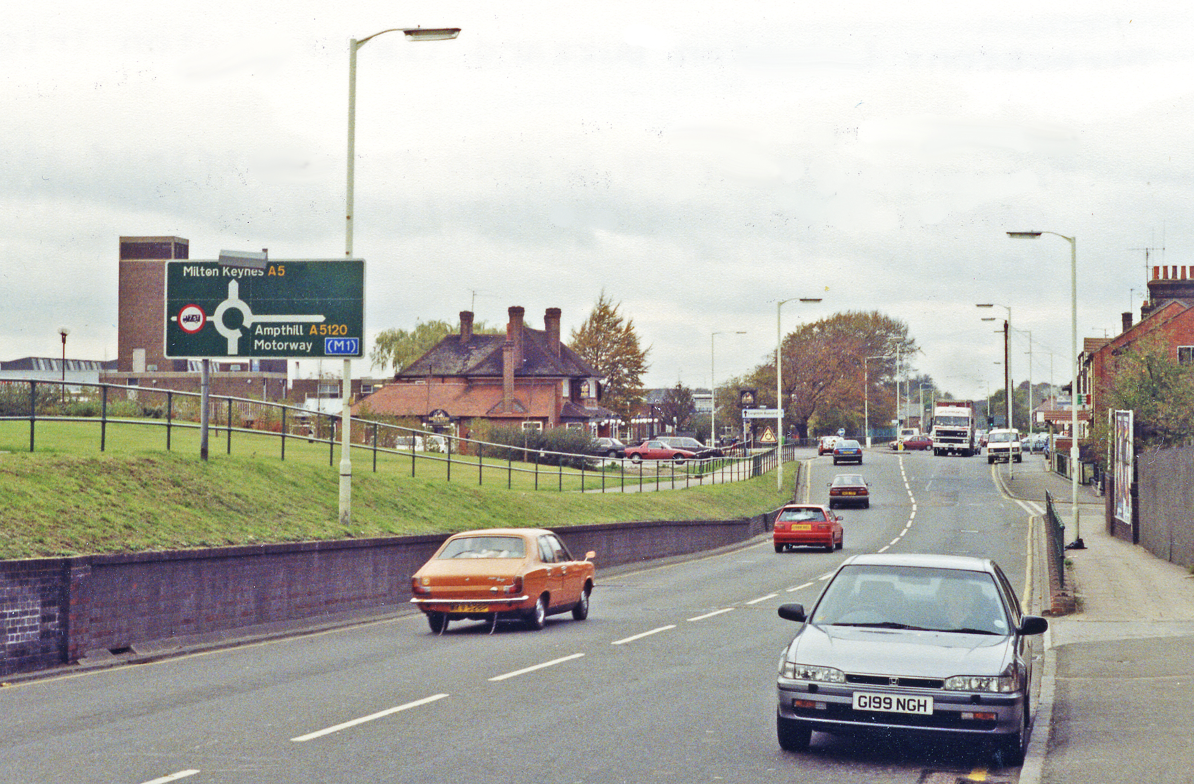 NW on A5 at site of former Dunstable North station, 1990. View NW on A5 towards Milton Keynes. The ex-LNWR line from Leighton Buzzard (to right) had crossed here to enter Dunstable North station (up to the left), joining end-on with the ex-GNR line from Hatfield and Welwyn Garden City via Luton and Dunstable Town (q.v. TL0221 : Dunstable: westward on Church Street (A505) at site of former Dunstable Town station, 1990). The station closed 9/10/67, when the line from Leighton Buzzard was closed, trains from Hatfield having ceased from 26/4/65. (My Honda Accord features in the foreground).